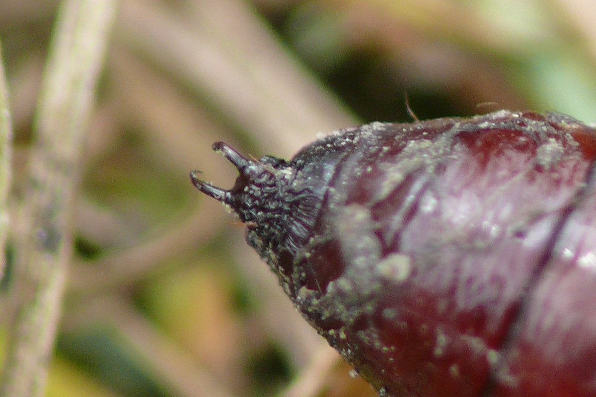 Cremaster of the pupa of the Merveille-du-Jour (Griposia aprilina).